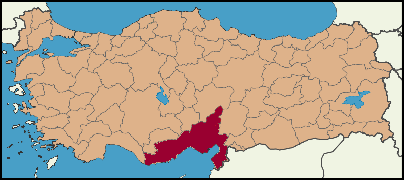 Map of Çukurova